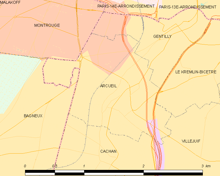 Map of French municipality Arcueil